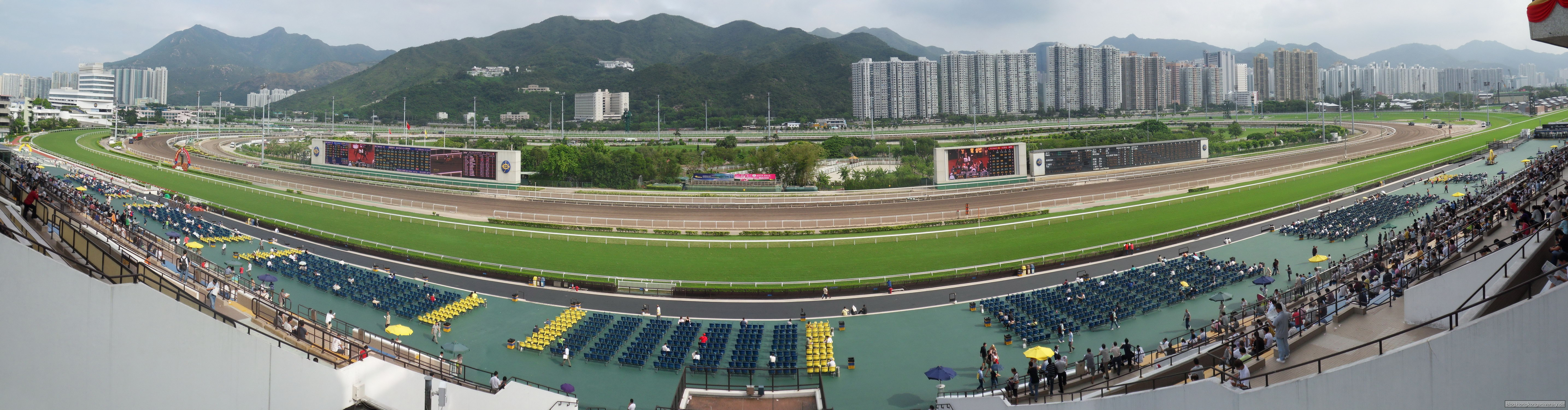 Southeast Panorama over the Sha Tin Horse Race course on the chiese national day racing, Sha Tin, Hong Kong